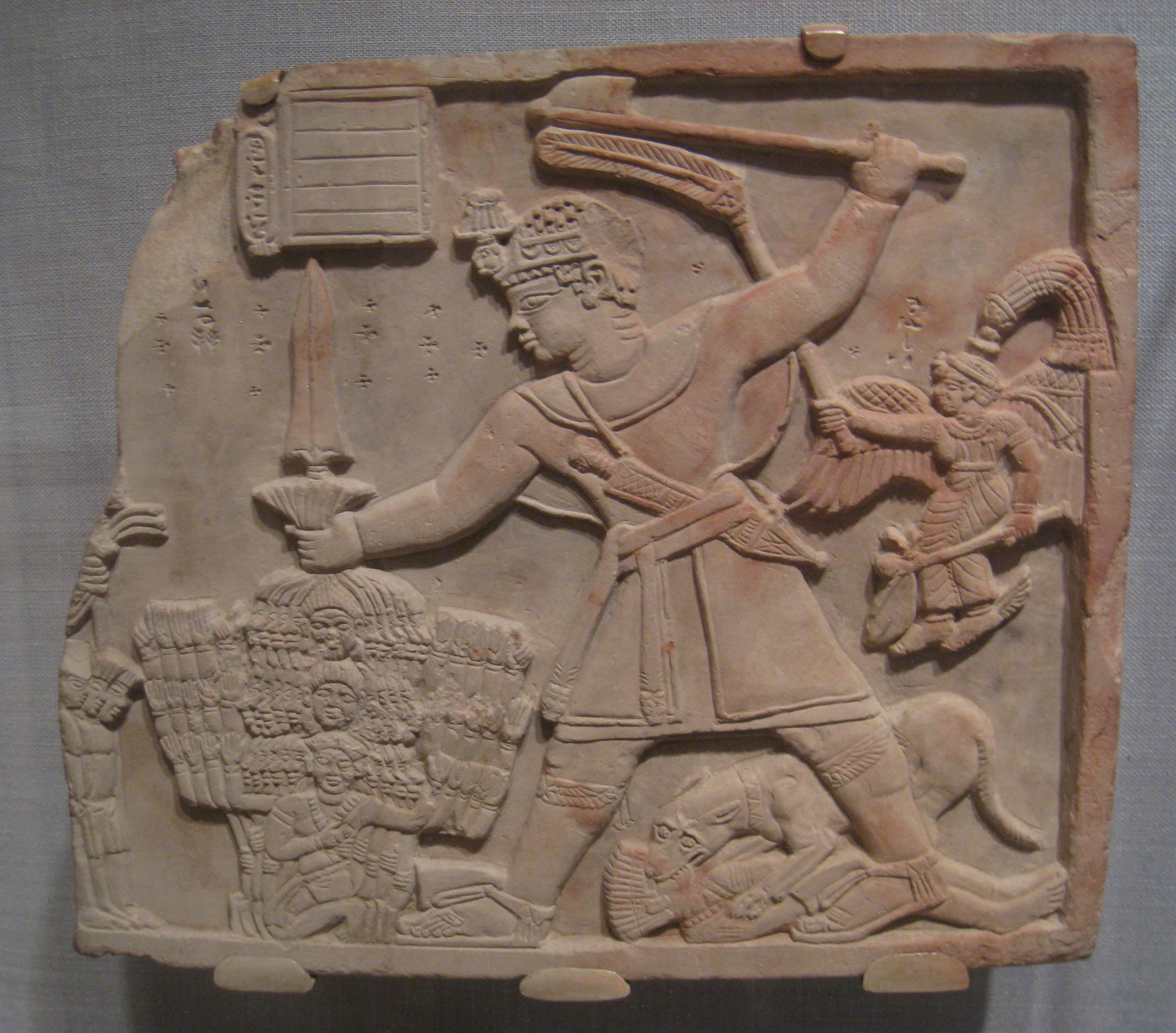 Prince Arikankharer Slaying His Enemies, Meroitic, beginning of first century AD, sandstone, in the Worcester Art Museum, Worcester, Massachusetts, USA. The museum permits photography and does not restrict usage of the photographs.